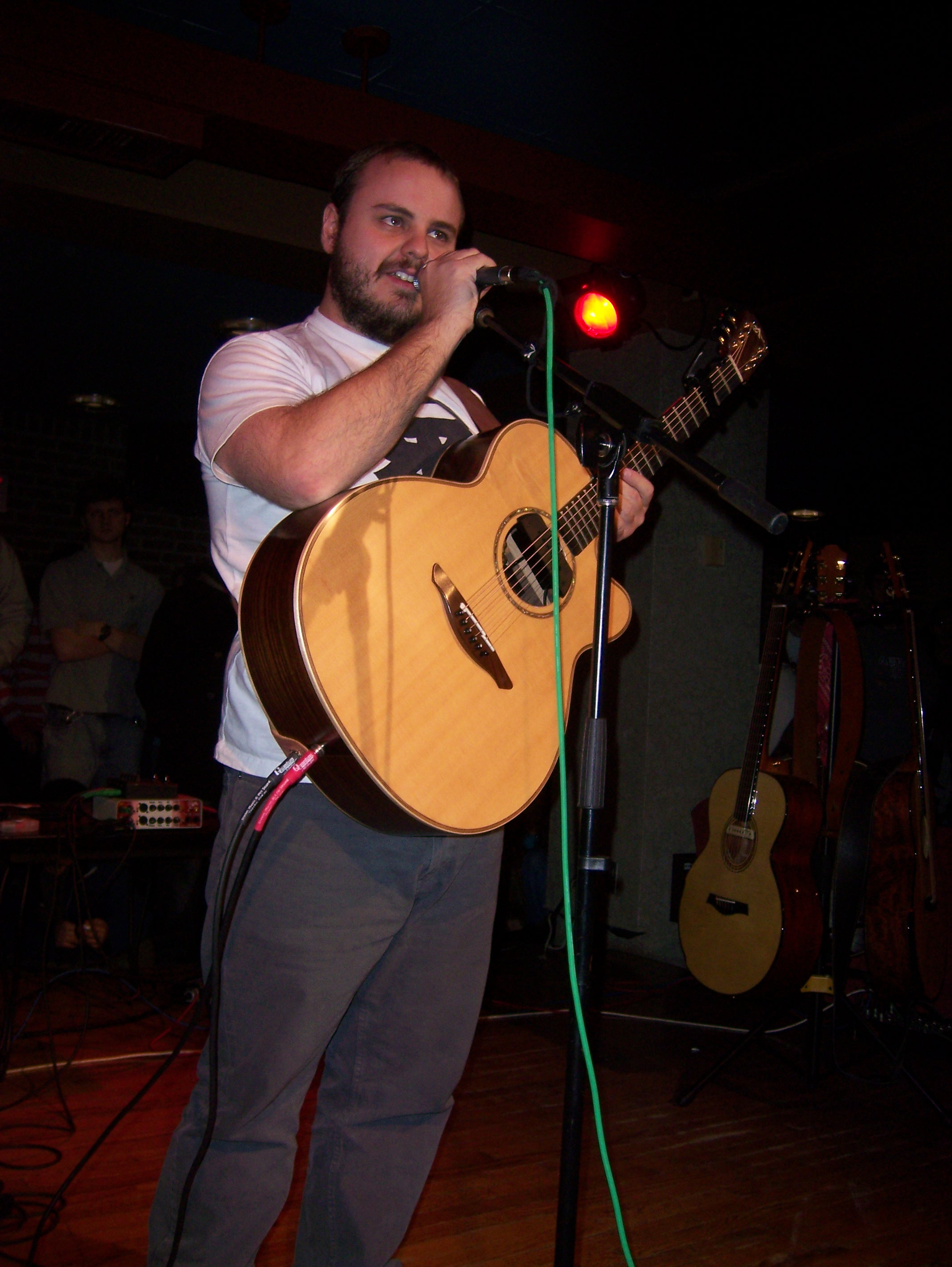 Photo of Andy McKee in concert